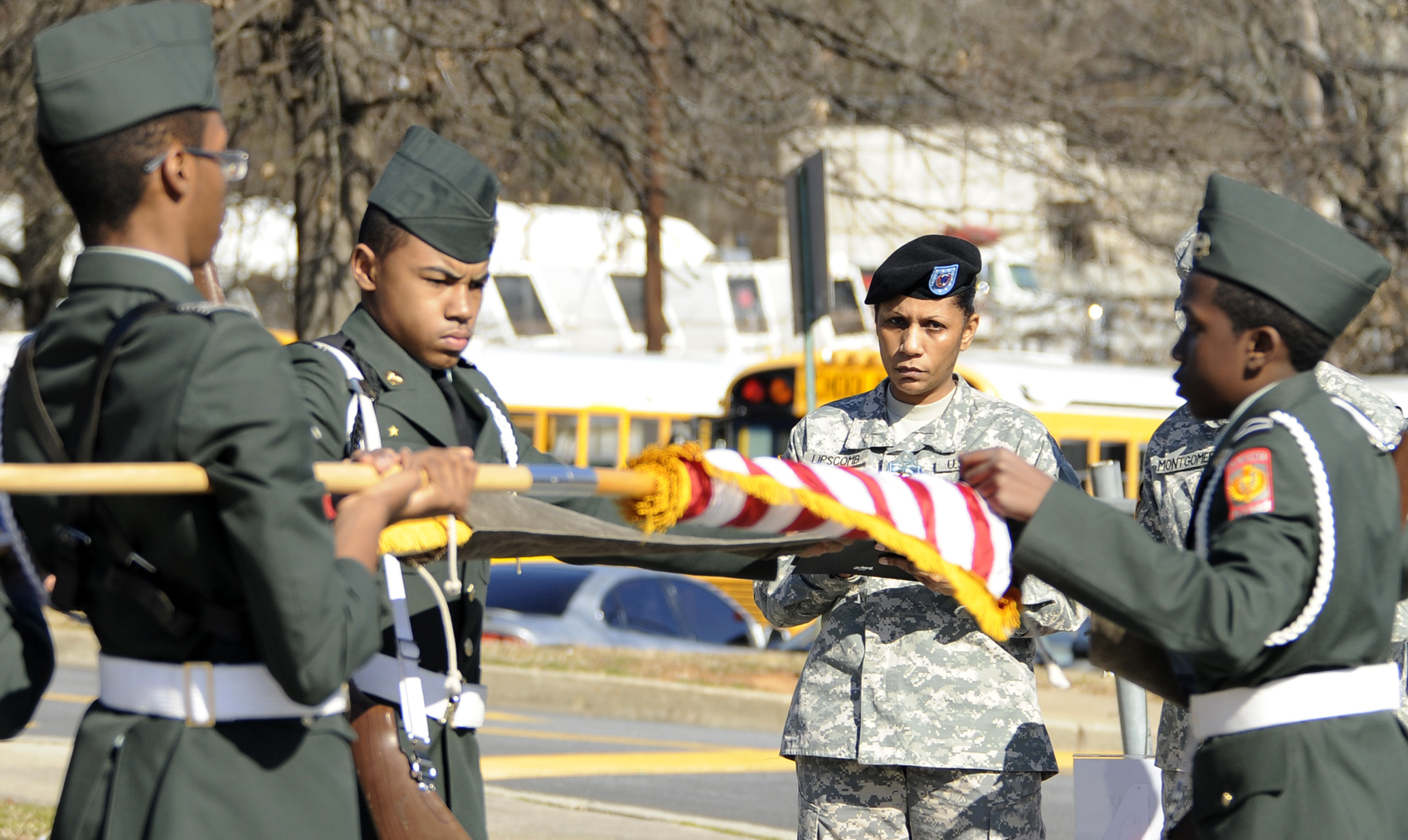 Master Sgt. Libby Lipscomb, a member of the Army Reserve Command Honor Guard, evaluates a high school honor guard during the Georgia Area 6 JROTC Drill Team and Color Guard meet held at Jackson High School on Saturday, Feb. 20, in Atlanta, Ga. Non-commissioned officers from Army Reserve Command headquarters at Fort McPherson, Ga., served as judges along with other JROTC instructors and recruiters from the Atlanta Recruiting Battalion.